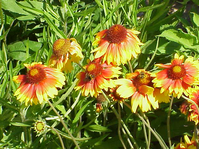 Species: Gaillardia aristata Family: Asteraceae Image No. 3